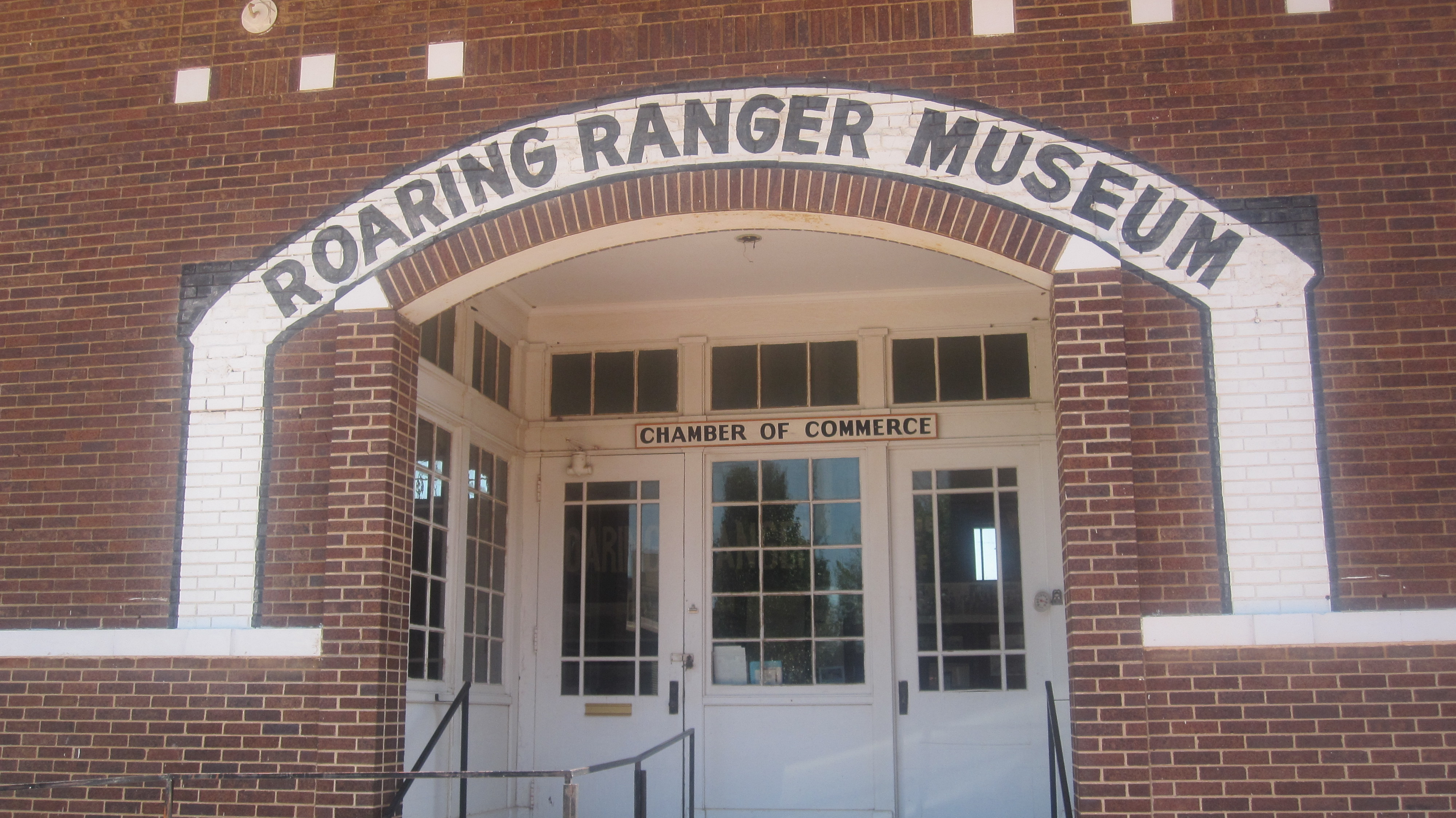 Roaring Ranger Museum in Ranger, TX.